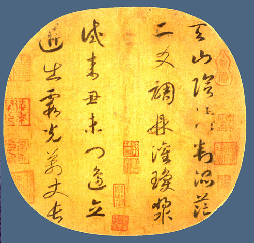 Quatrain on Heavenly Mountain, fan with quatrain poem attributed to Emperor Gaozong of Song (1107–1187; reigned 1127–62), the tenth Chinese Emperor of the Song Dynasty. Fan mounted as album leaf; ink on silk; 23.5 x 24.5 cm; four columns in cursive script